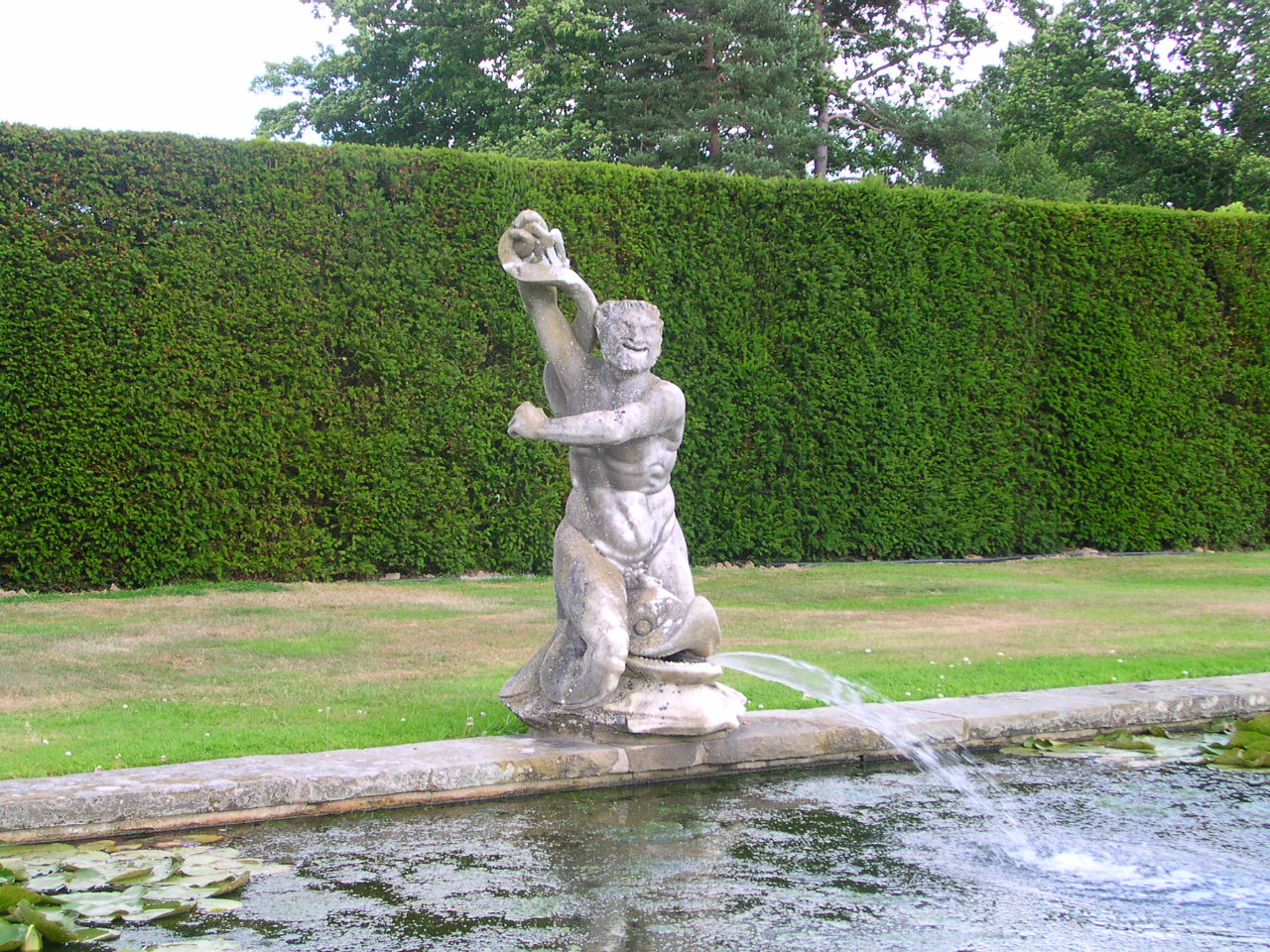 Hever Castle gardens, Kent, England.